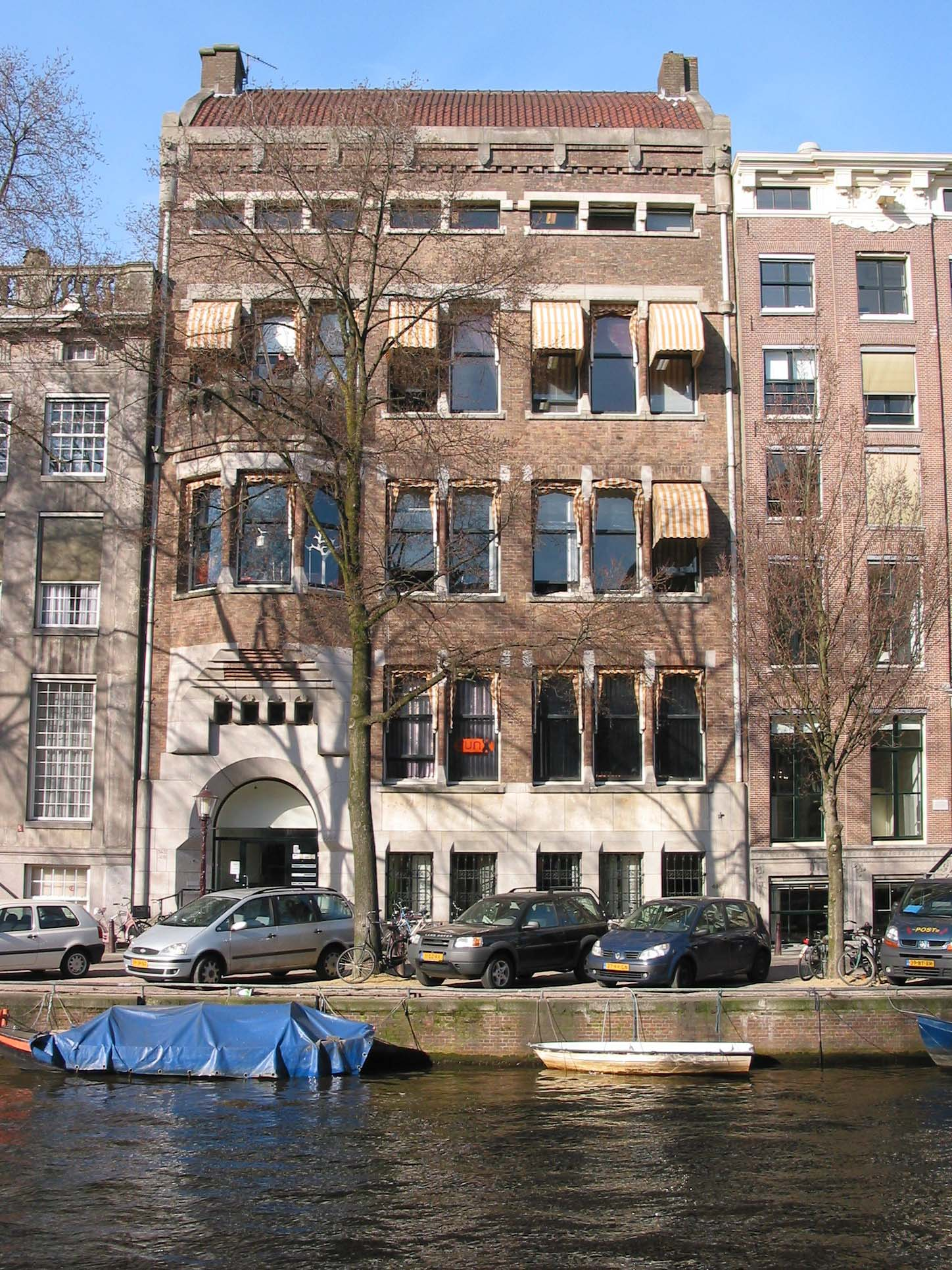 Herengracht 545-549, Amsterdam.